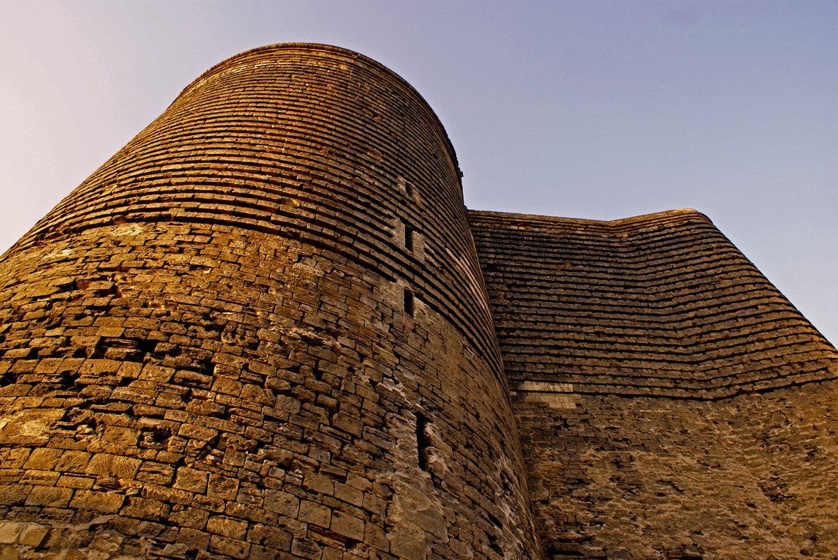 Maiden's Tower